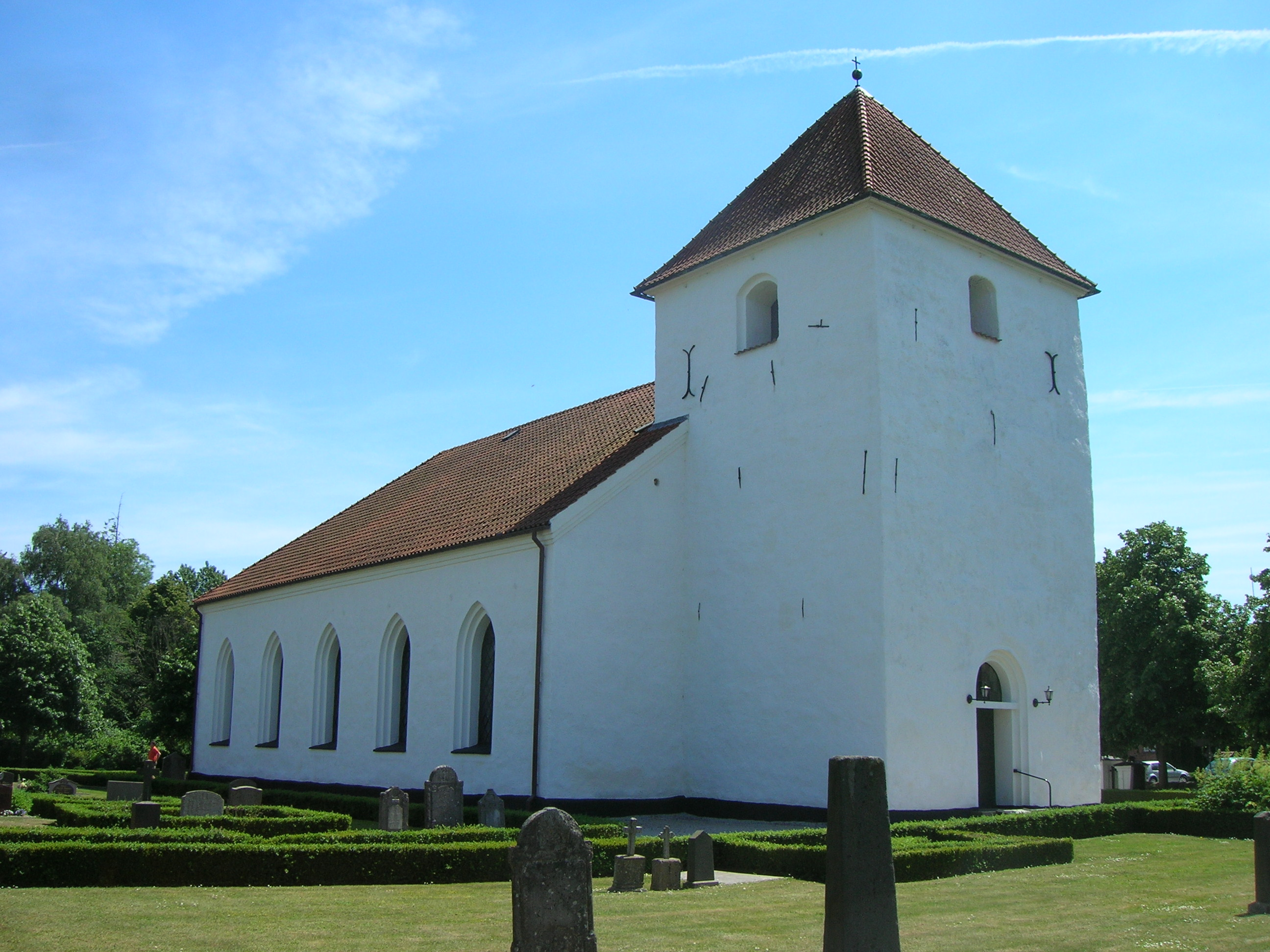 Vanstad Church, Sjöbo Municipality, Scania, Diocese of Lund, Sweden.